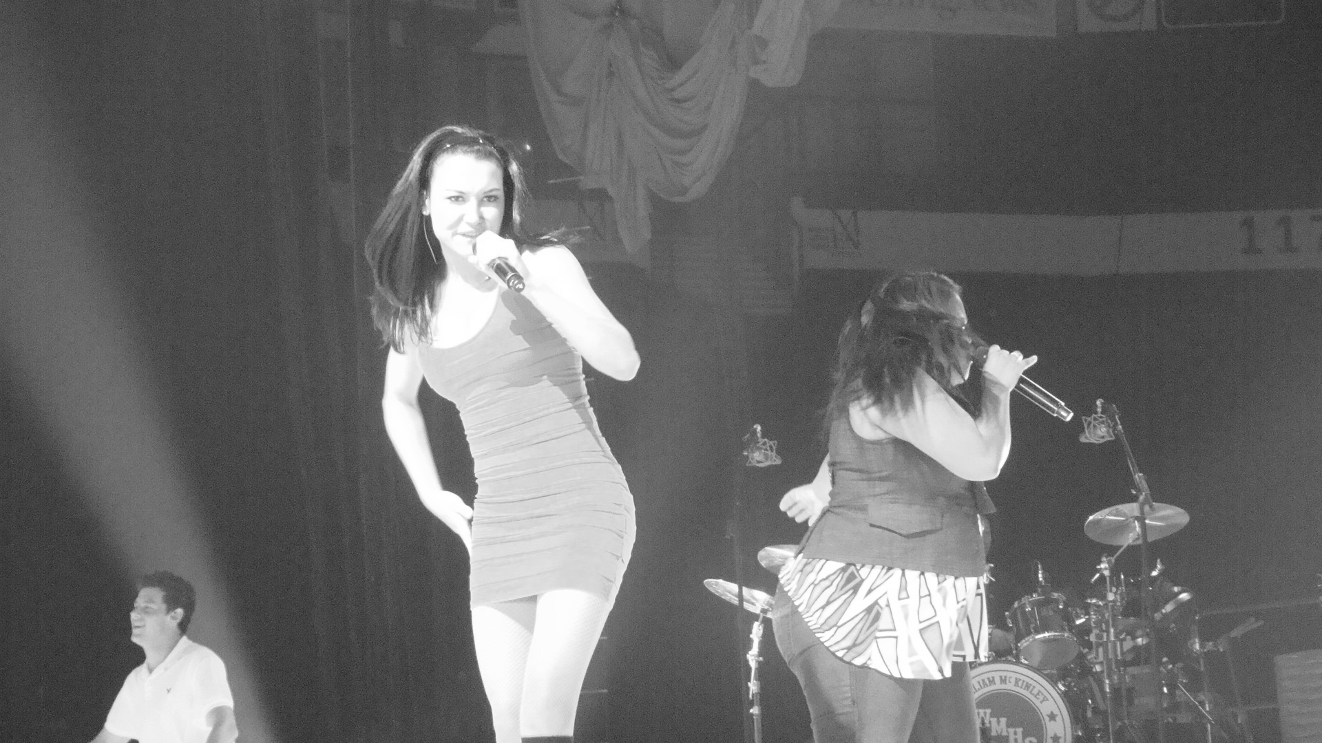 River Deep Mountain High